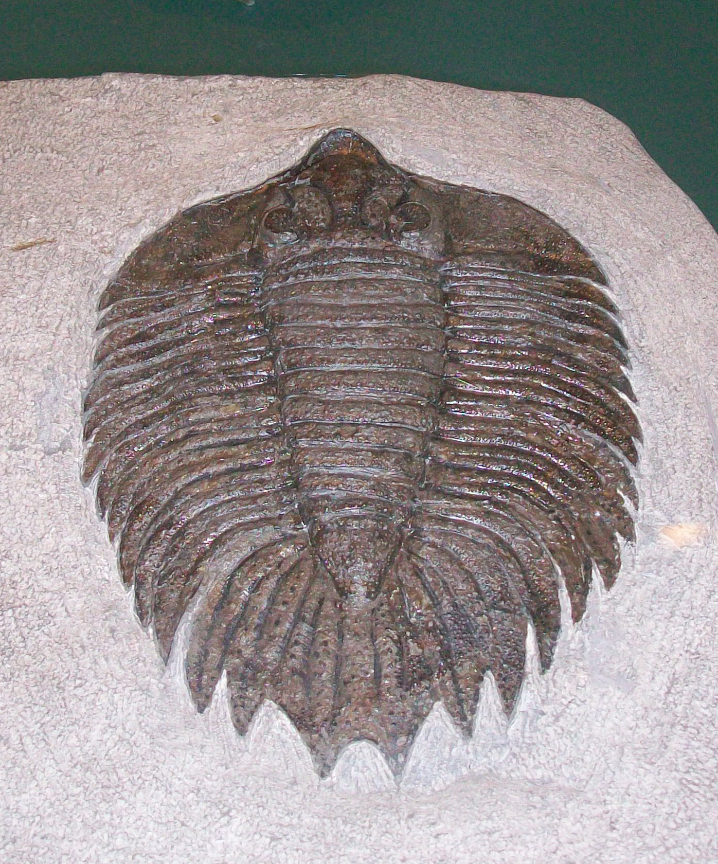 Fossil of Arctinurus boltoni in the Field Museum of Natural History.